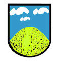 Coat of arms of Piasek in powiat pszczyński.